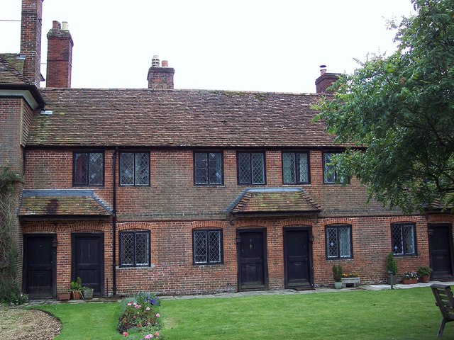 Farley Hospital Sir Stephen Fox commissioned Alexander Fort to design and build the almshouses. Fort himself had worked with Sir Christopher Wren.